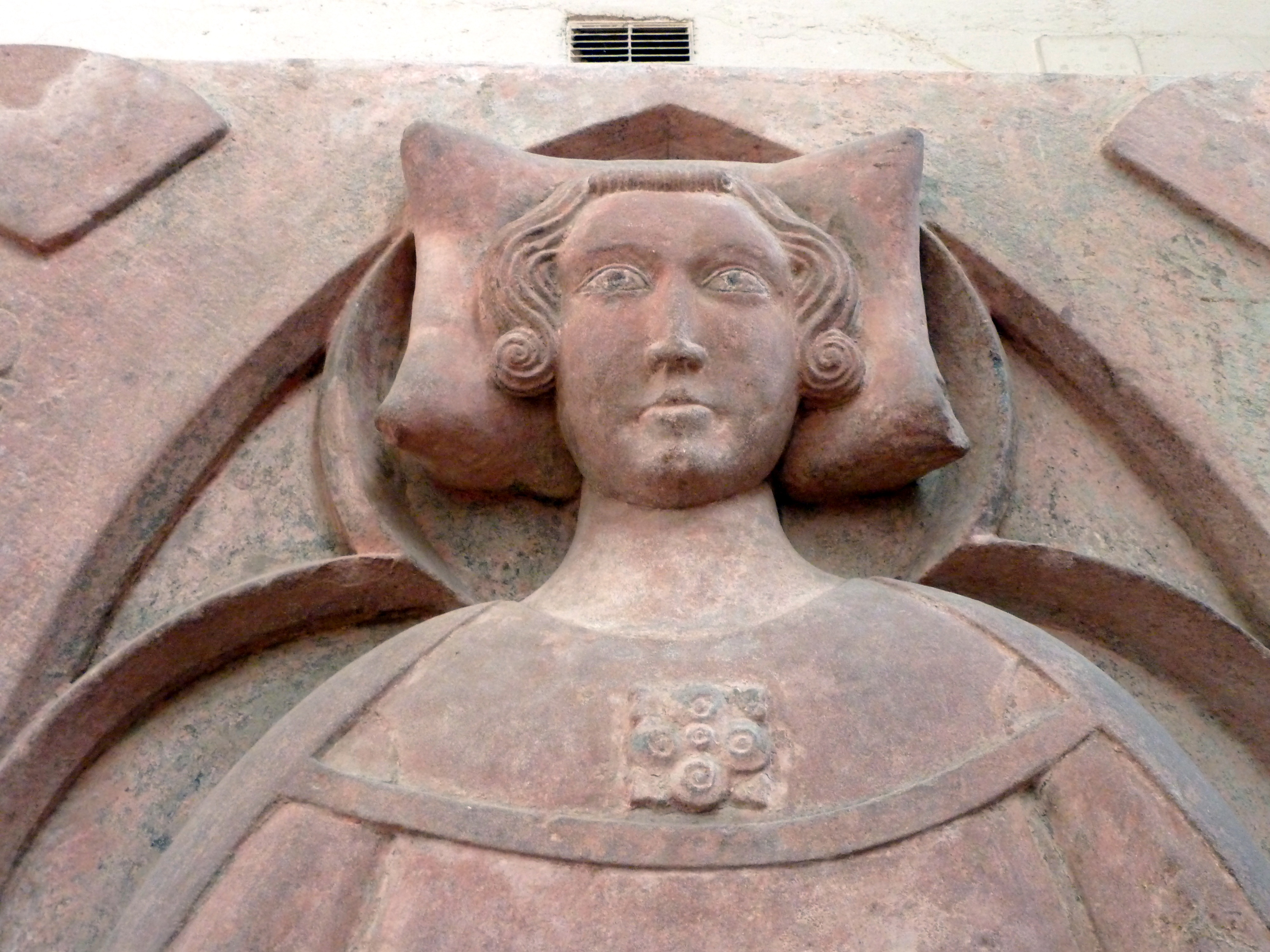 Gravestone Johann de Limpurg ( + 1312), detail. Church St.Sebastian in Limburg an der Lahn